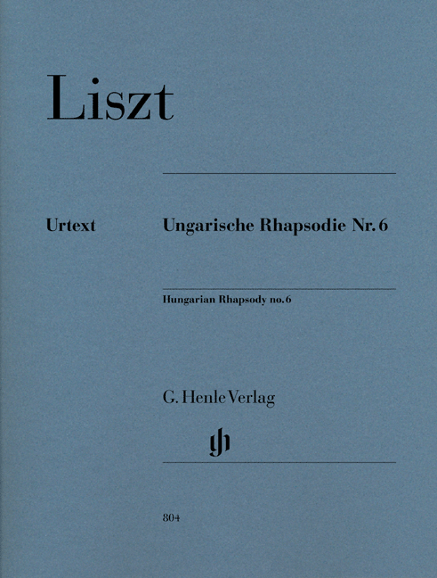 Cover of musical notes